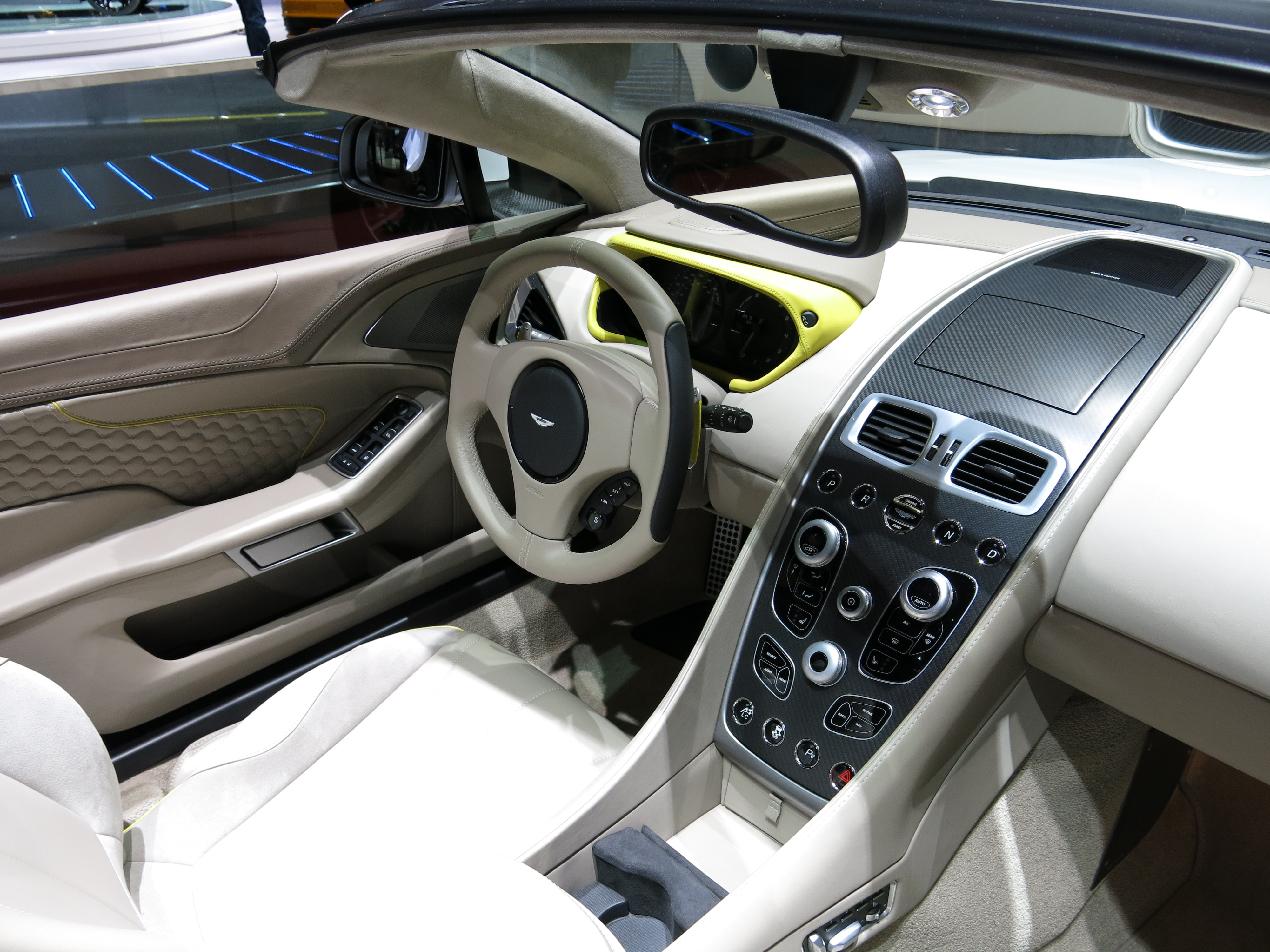 Geneva Motor Show 2015 (photo taken on the first press day)